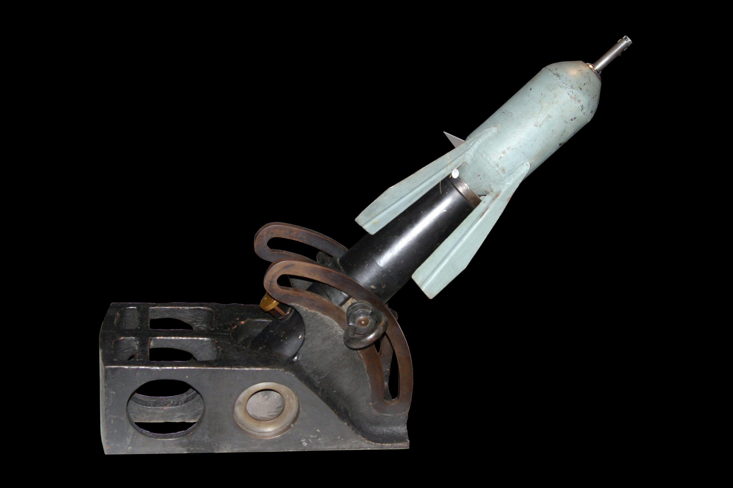 Closeup of French Mortier de 58 mm type 2 of WWI with 20 kg A.L.S. bomb loaded (blue). At the Musée de l'Armée, Paris.